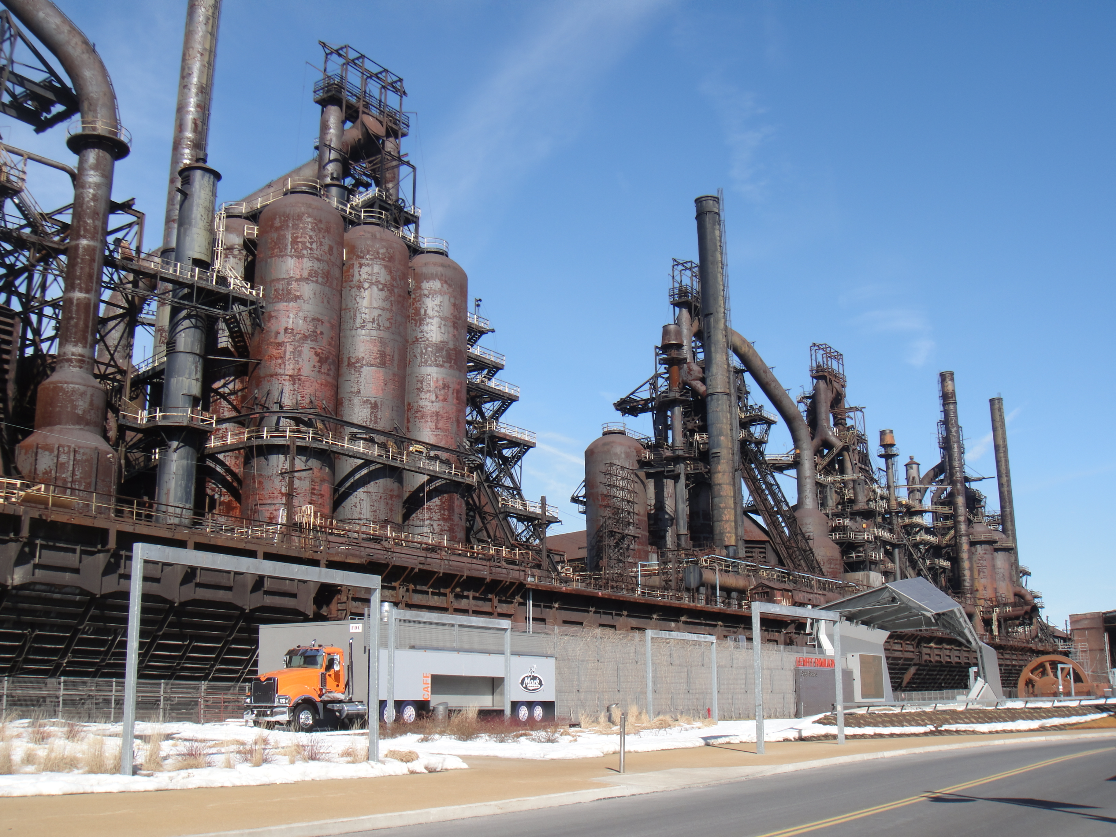 Old buildings that were part of Bethlehem Steel. They are now kept preserved by the Sands Casino Resort Bethlehem.